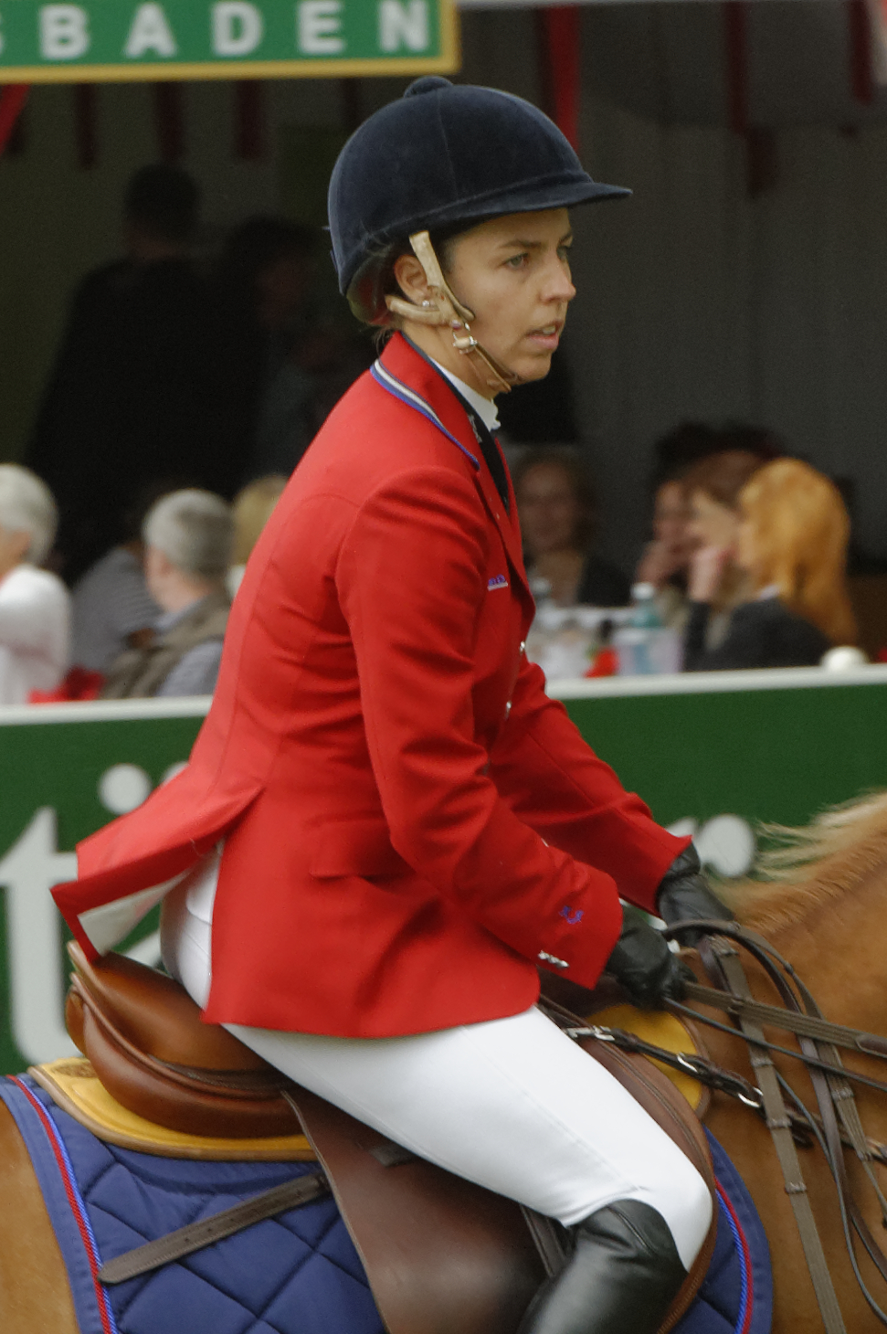 Internationales Pfingstturnier Wiesbaden 2013 The making of this document was supported by the Community-Budget of Wikimedia Germany.